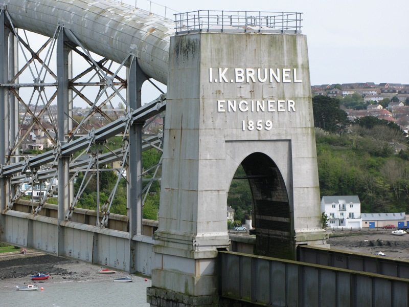 The Royal Albert Bridge at Saltash, Cornwall, United Kingdom. Taken in 2009, 150 years after its construction by Isambard Kingdom Brunel.